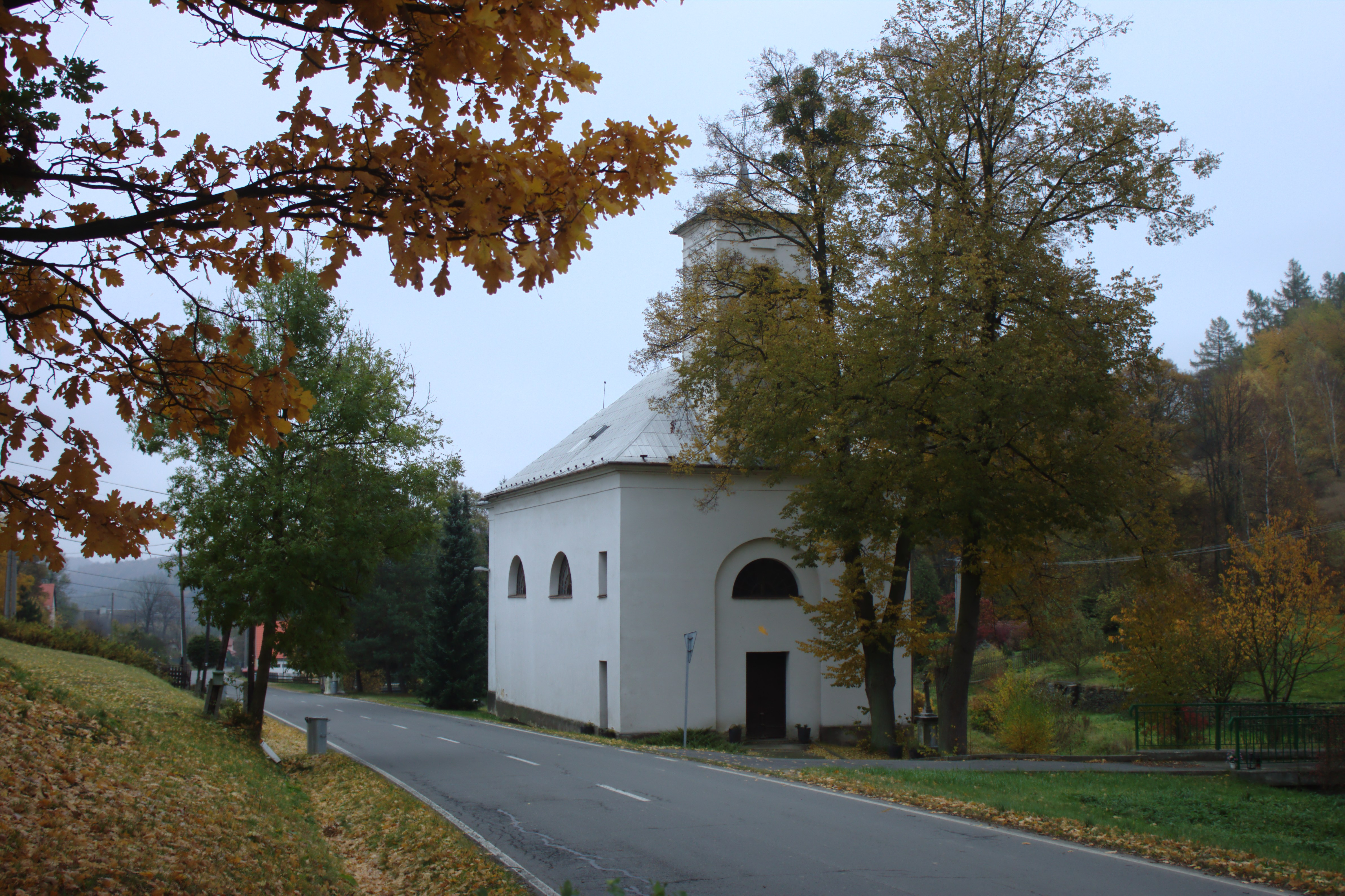 A chapel in the village of Oborná, Moravian-Silesian Region, CZ